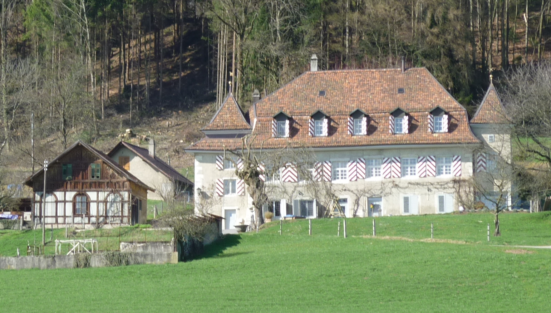 Staalenhof in Langendorf, Canton of Solothurn, Switzerland, near the border to the community of Bellach; former manor of the extinct patrician family vom Staal of Solothurn, built in the 16th century.